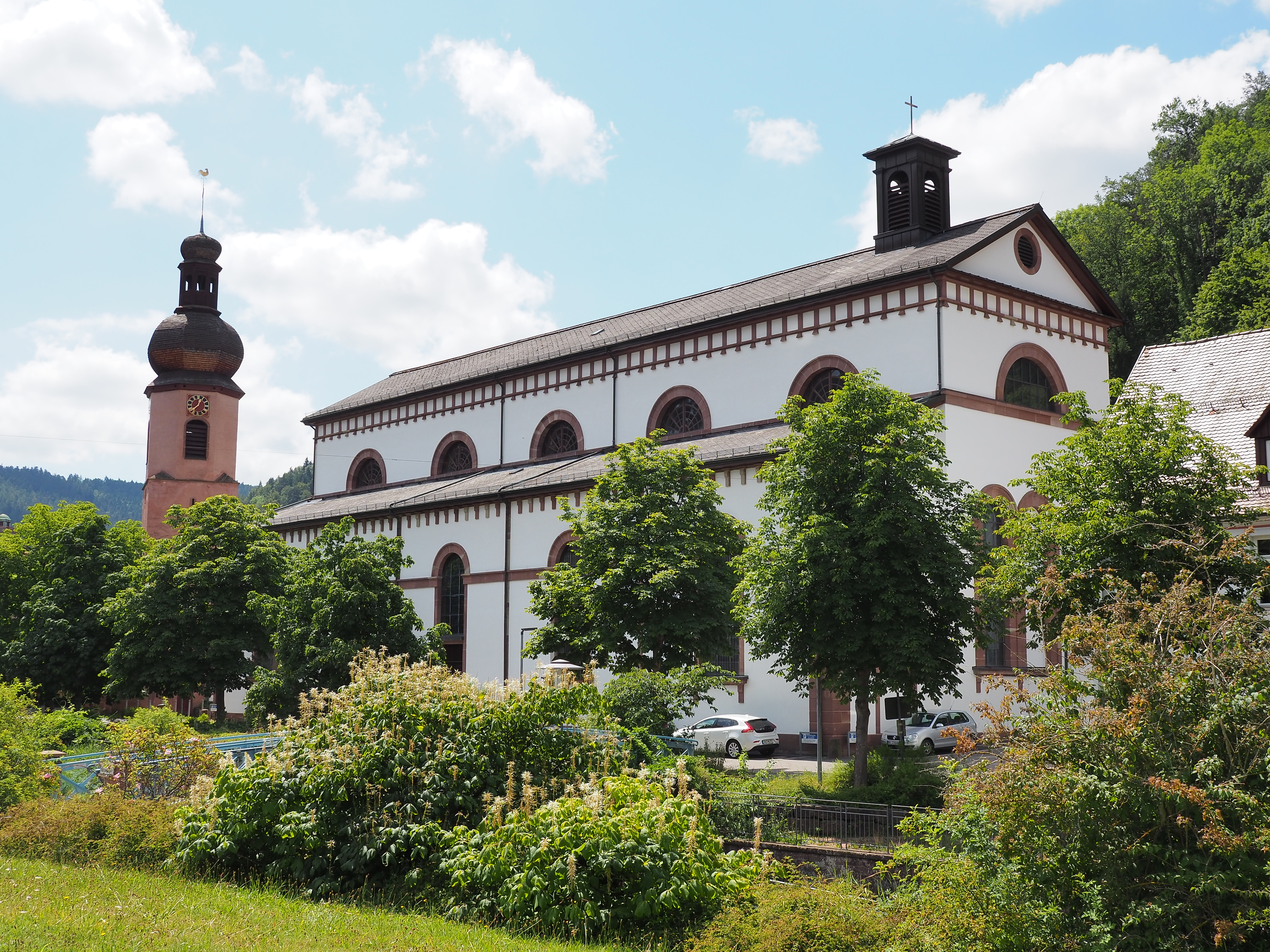 church and bell tower of St. Maria